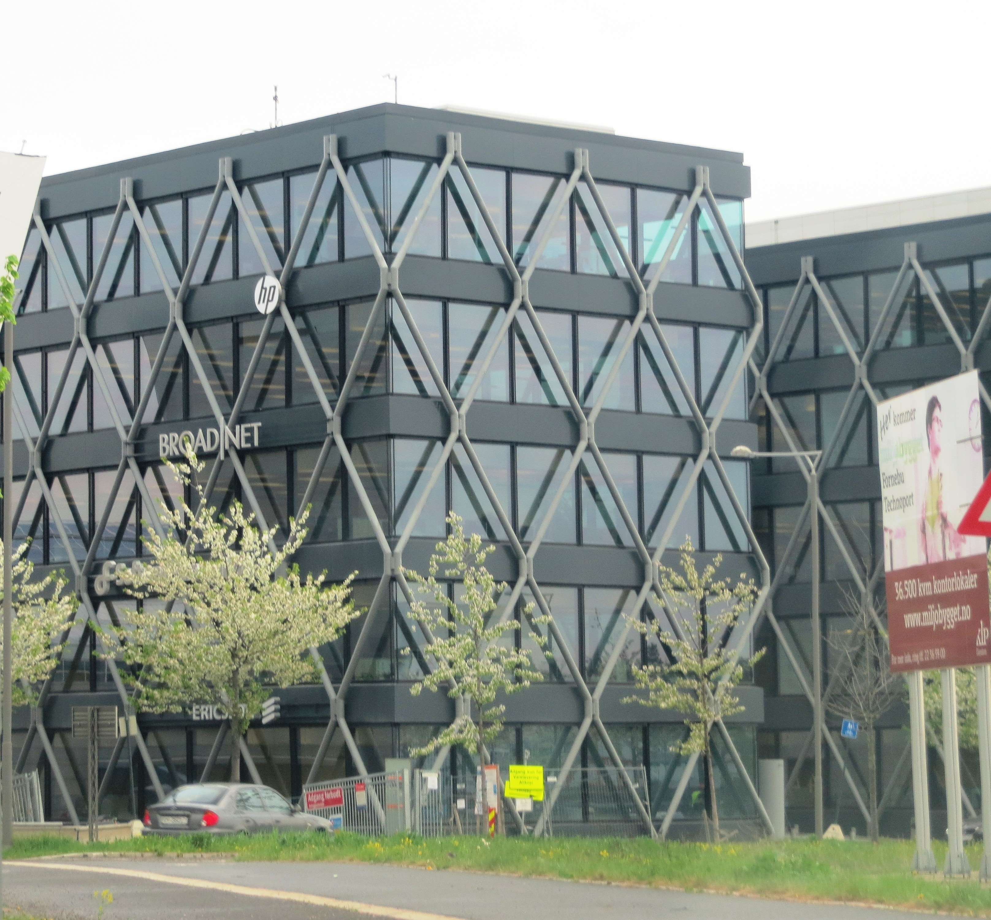 IT Fornebu, a hightech cluster just outside Oslo, Norway. This is the Broadnet AS (formerly Ventelo) headquarter.